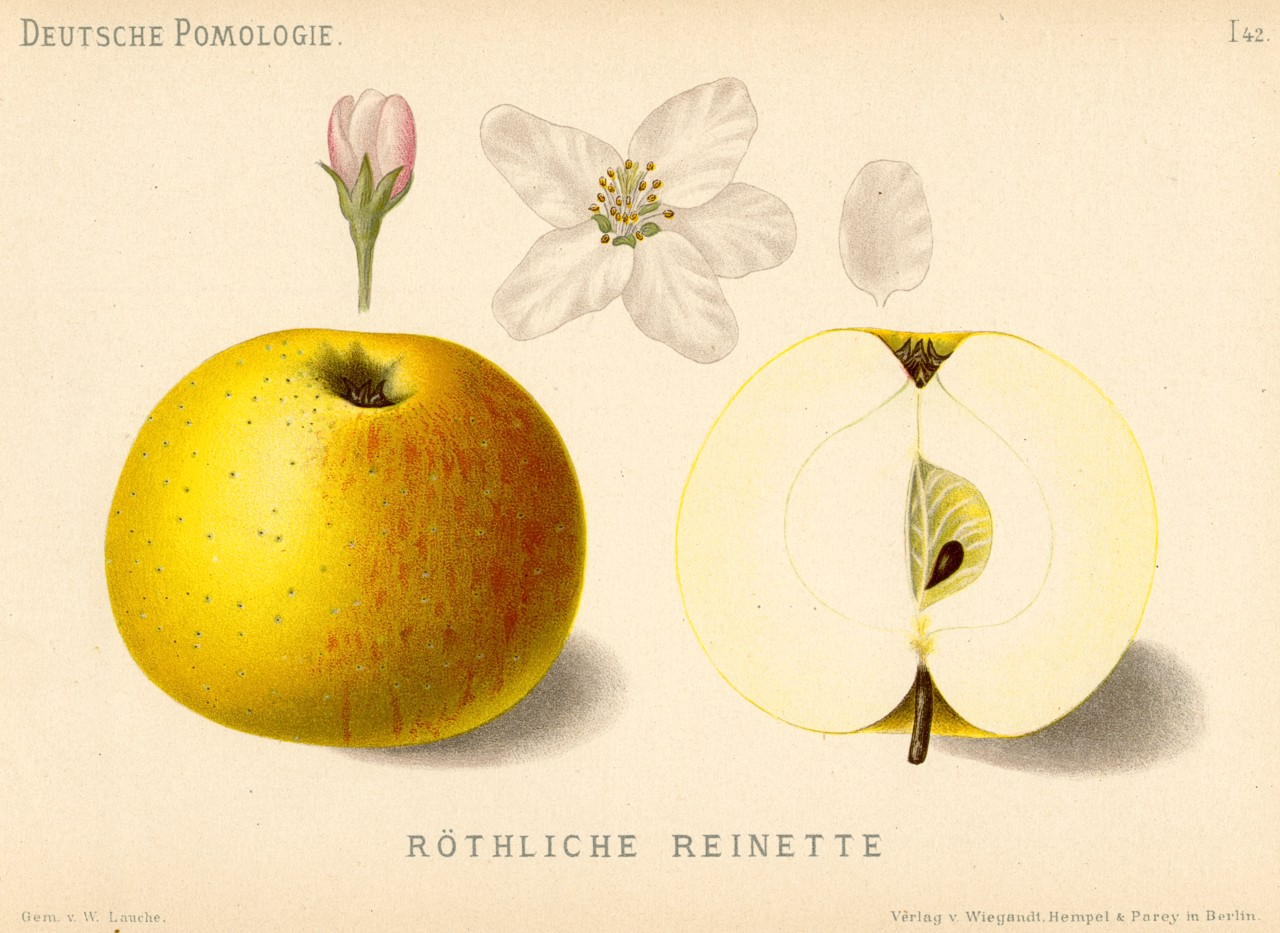 Illustration 42 from Deutsche Pomologie - Aepfel Apple cultivar shown: Röthliche Reinette